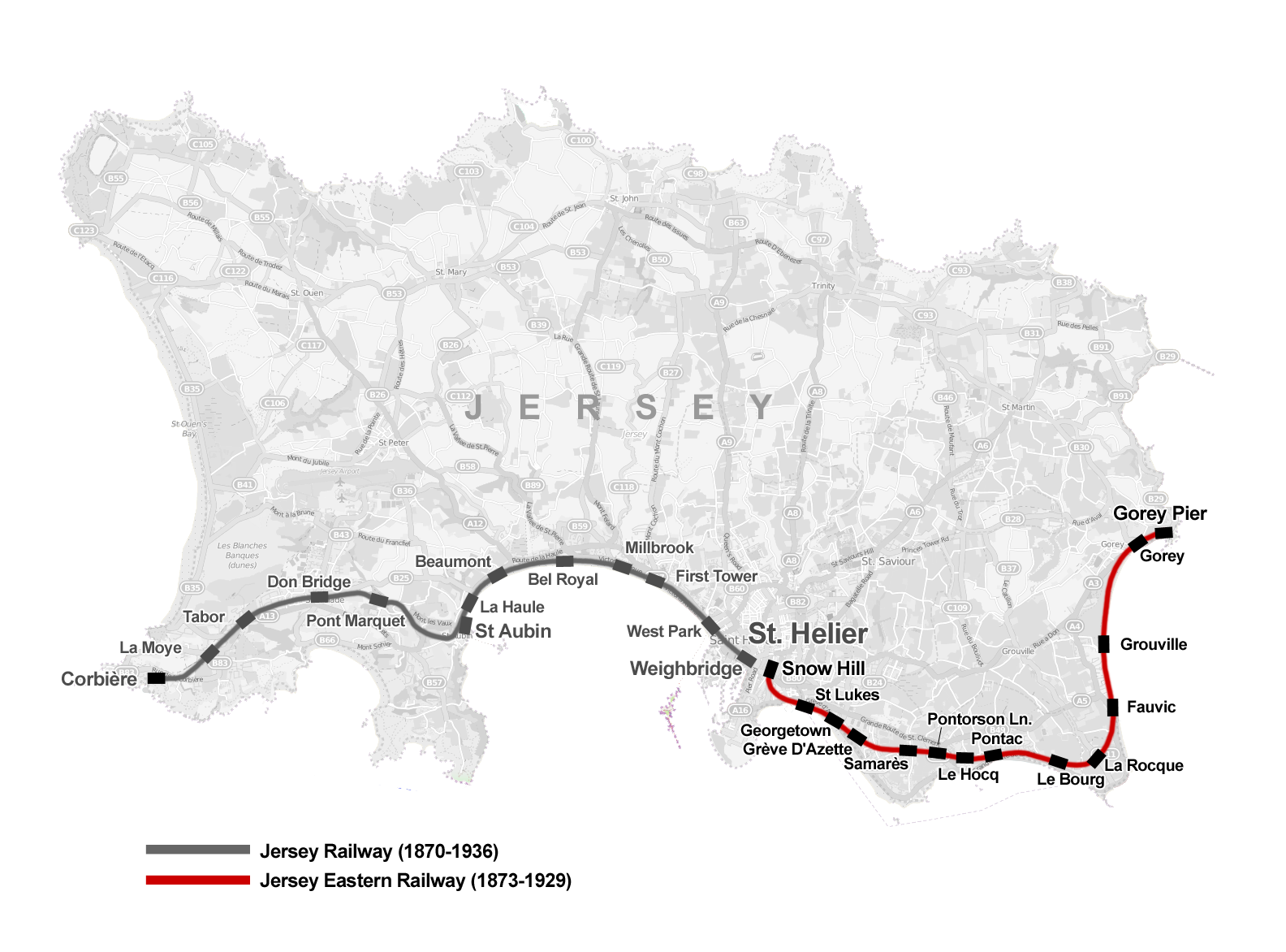 Map of the former railway lines on the Island of Jersey, Channel Islands, with the Jersey Eastern Railway (1873-1929) highlighted